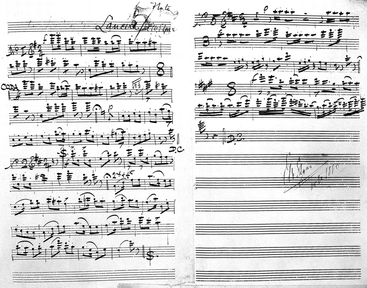 Music manuscript with Edward Elgar's signature. Wellcome Images Keywords: composers; neurology and psychiatry; Edward Elgar; Edward Elgar